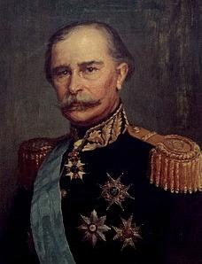 Painting of the military officer, baron and prime minister Gillis Bildt (1820-1894), here as military commander of Gotland National Conscription.